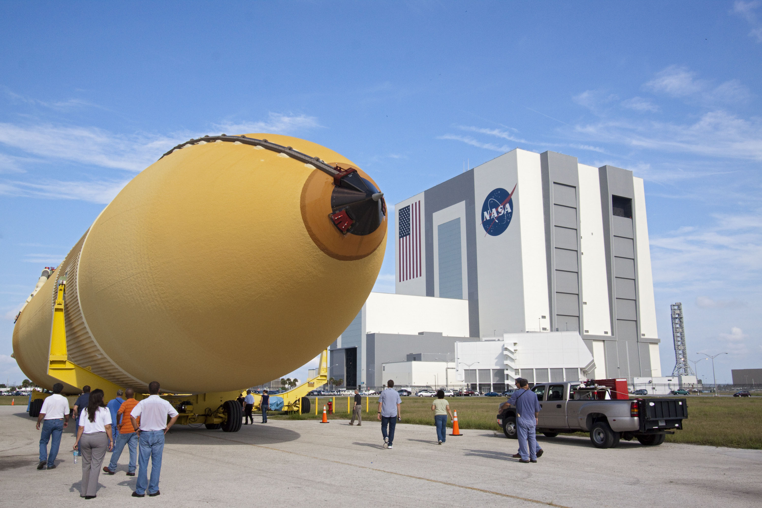 CAPE CANAVERAL, Fla. – At NASA's Kennedy Space Center in Florida, workers inspect External Tank-138, newly offloaded from the Pegasus barge docked in the turn basin near the Vehicle Assembly Building. The external fuel tank arrived in Florida on July 13, from NASA's Michoud Assembly Facility near New Orleans. ET-138, the last newly manufactured tank, was originally designated to fly on Endeavour's STS-134 mission to the International Space Station, but later reassigned to fly on space shuttle Atlantis' final mission, STS-135. For information, visit